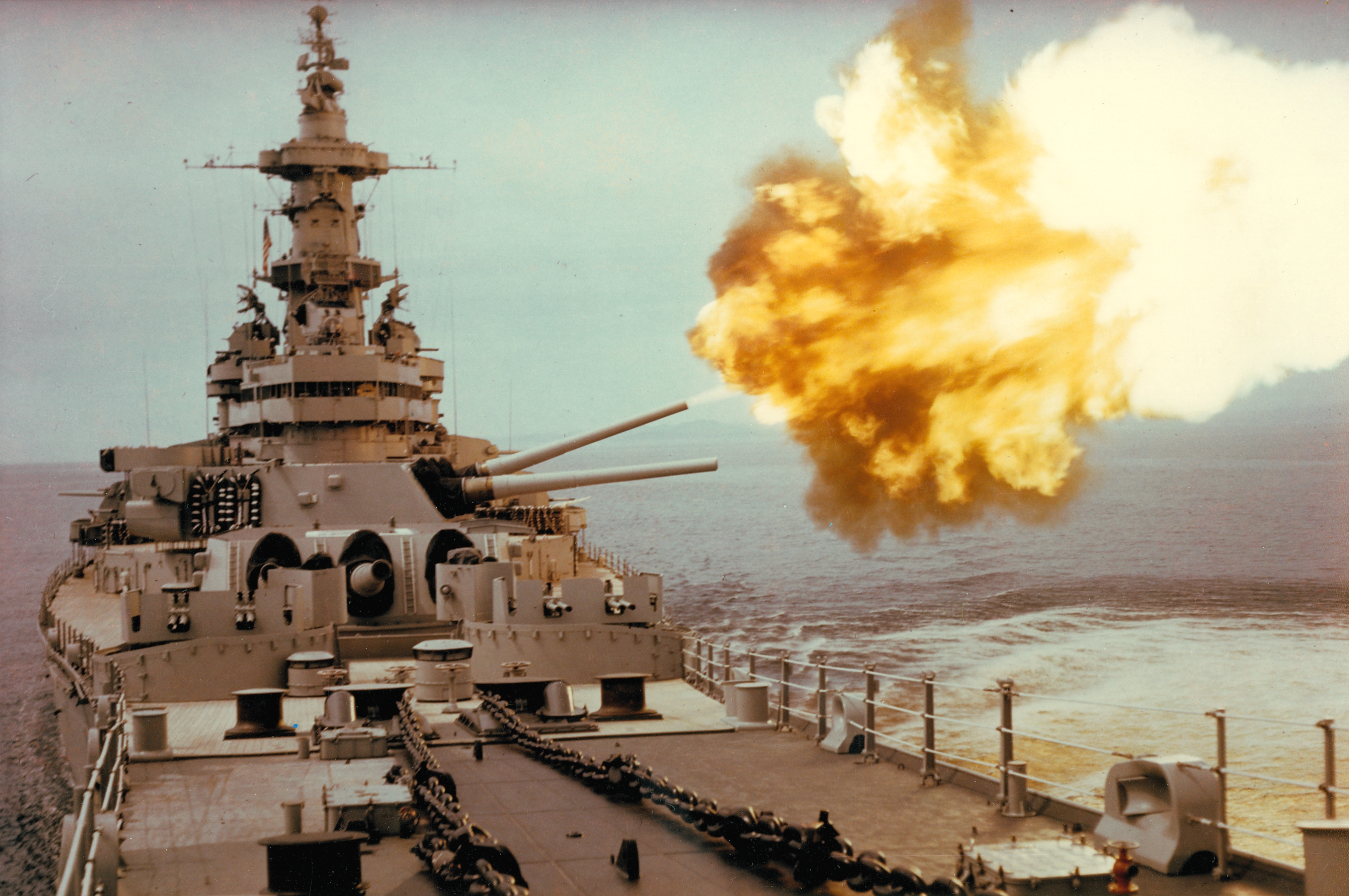 The U.S. Navy battleship USS Iowa (BB-61) fires a 406 mm (16 inch) shell toward a North Korean target, in mid-1952.